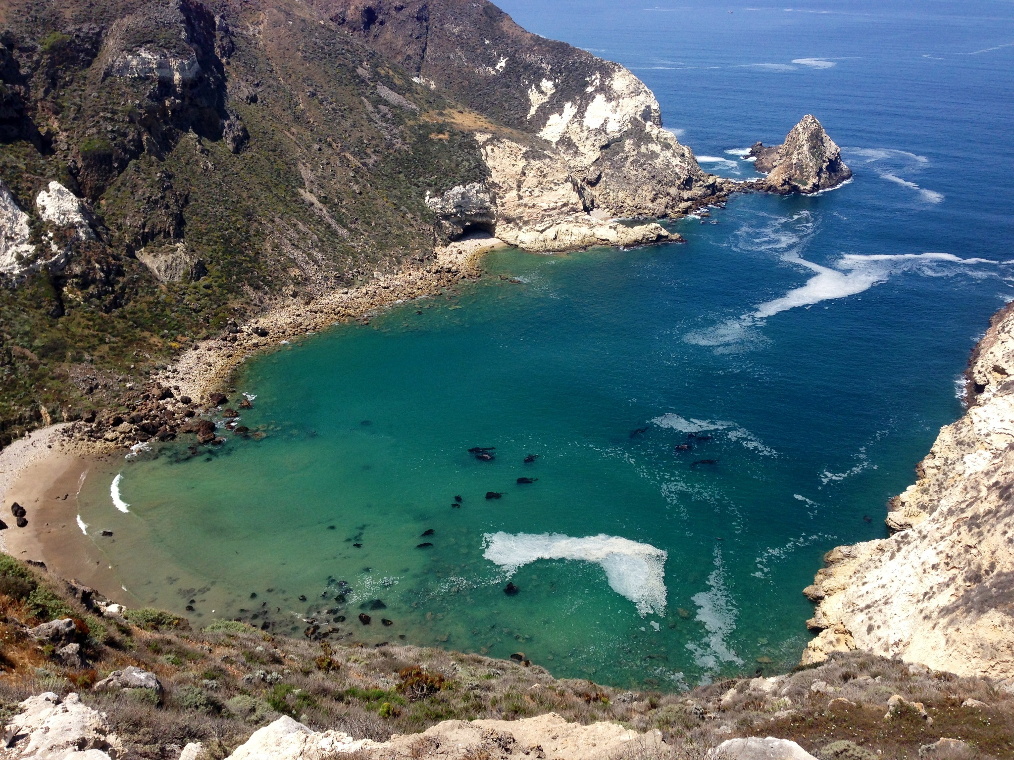 Potato Harbor seen from the overlook point.